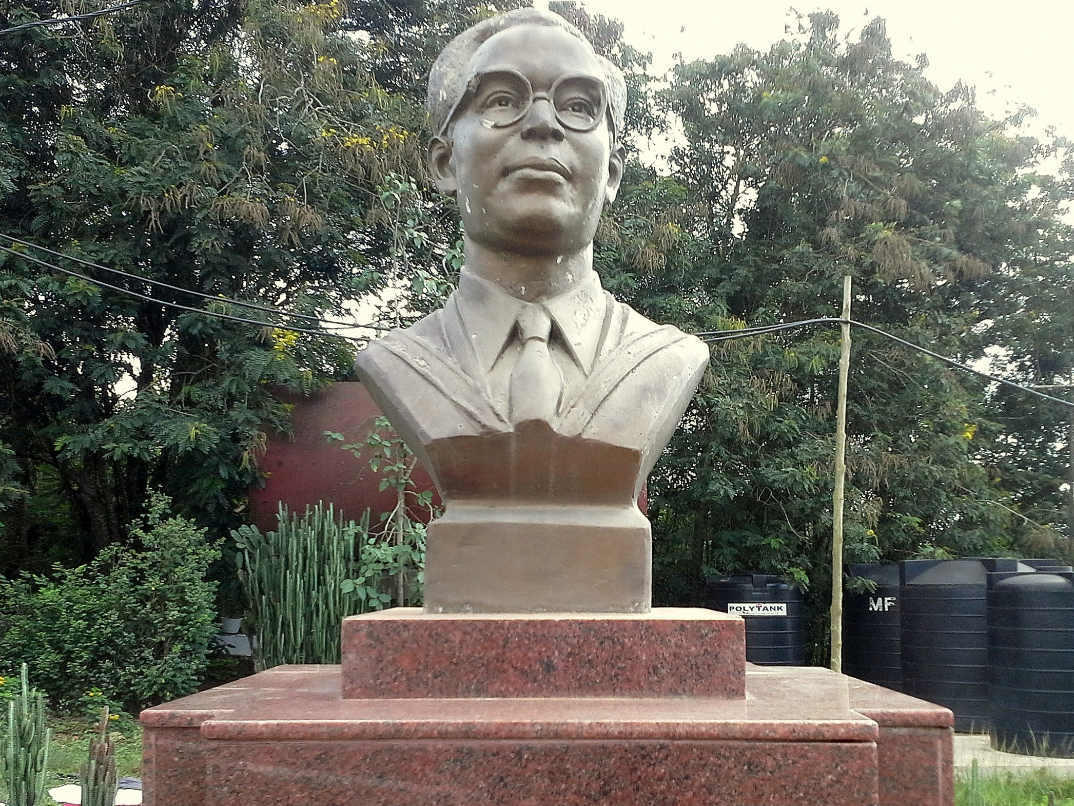 Picture by User:Enock4seth